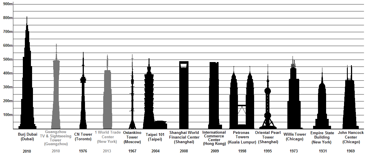 Some of the tallest buildings and towers with public viewing facilities, including under construction buildings. Note that these are not the tallest thirteen in the world, ranked by height, but just a comparison of some of the tallest.